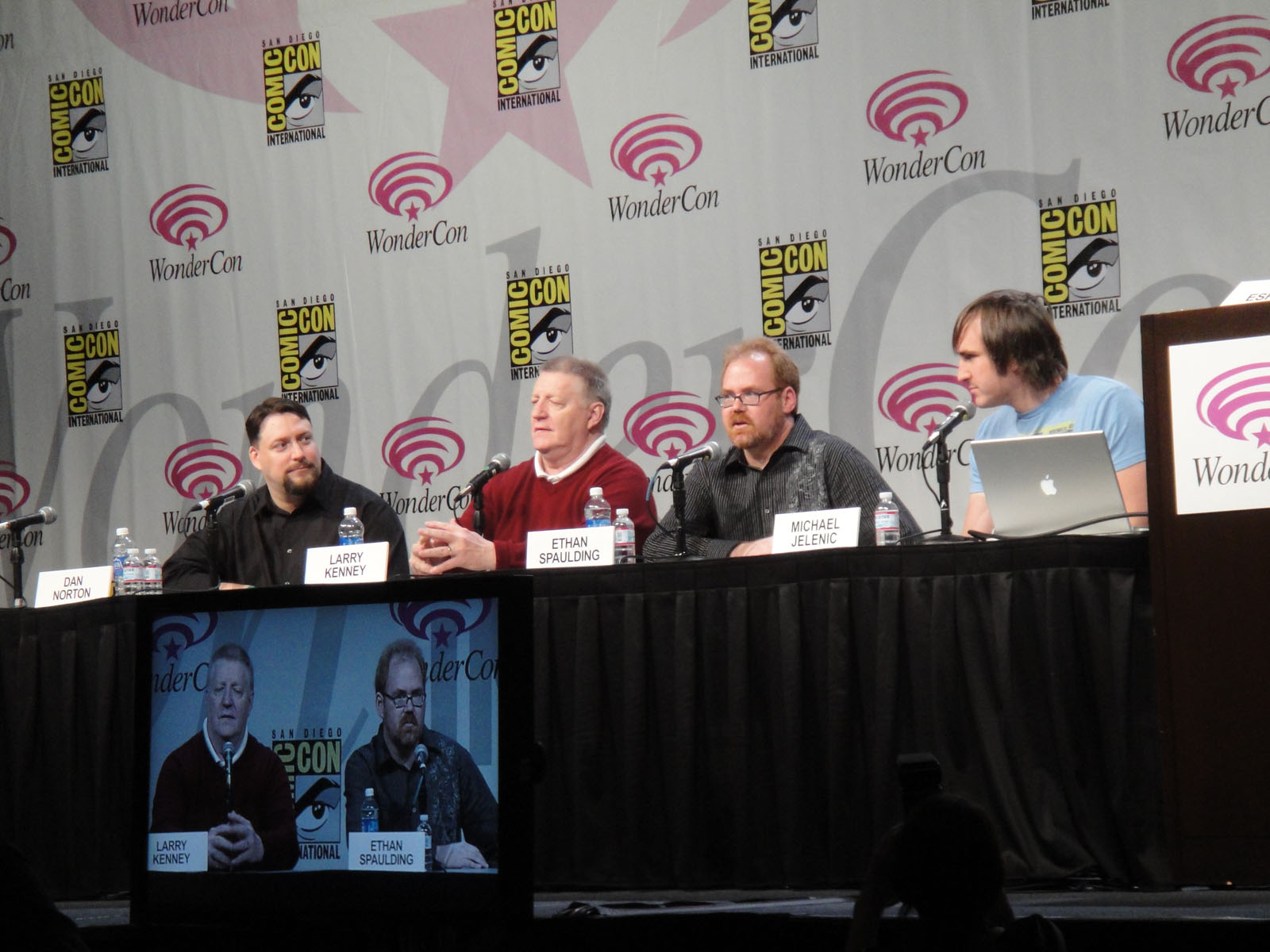 WonderCon 2011 - Thundercats new animated series panel - art director Dan Norton, voice talent Larry Kenney, and producers Ethan Spaulding and Michael Jelenic